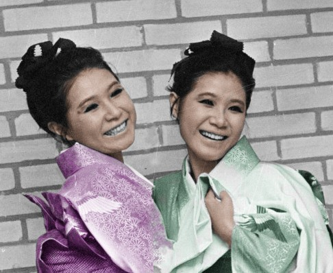 This is a colorized crop of The Peanuts. Original description in orginal language is included with this upload.